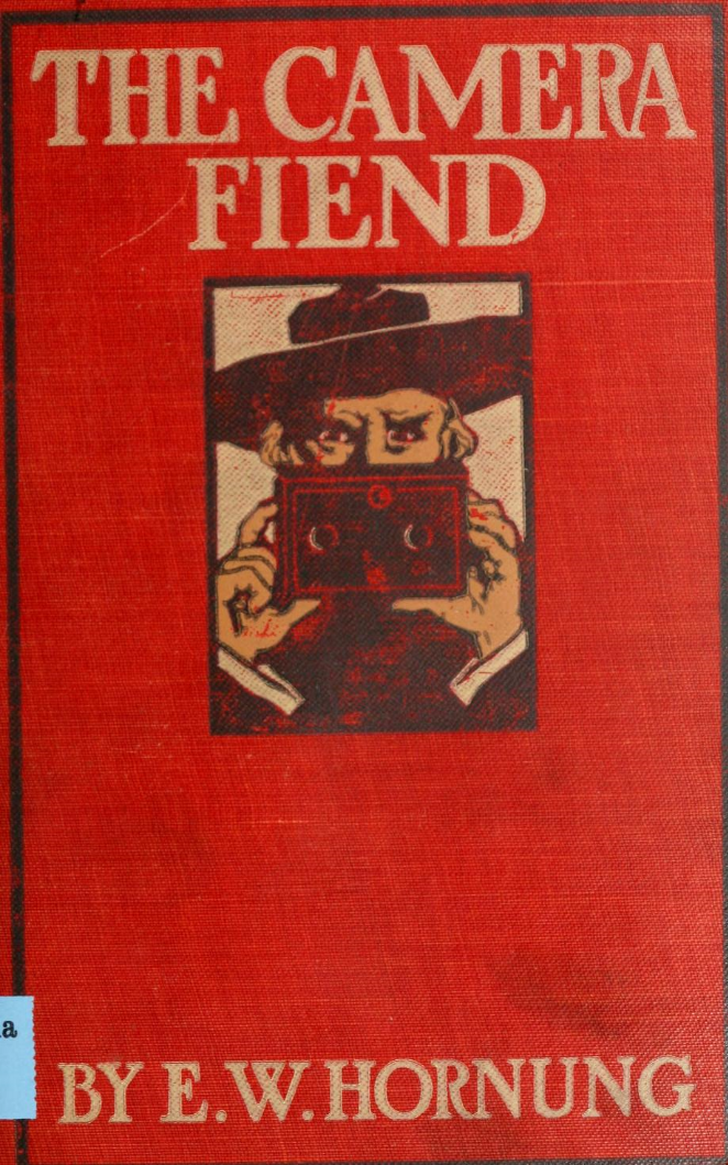 Cover of the 1911 novel by E.W. Hornung, The Camera Fiend